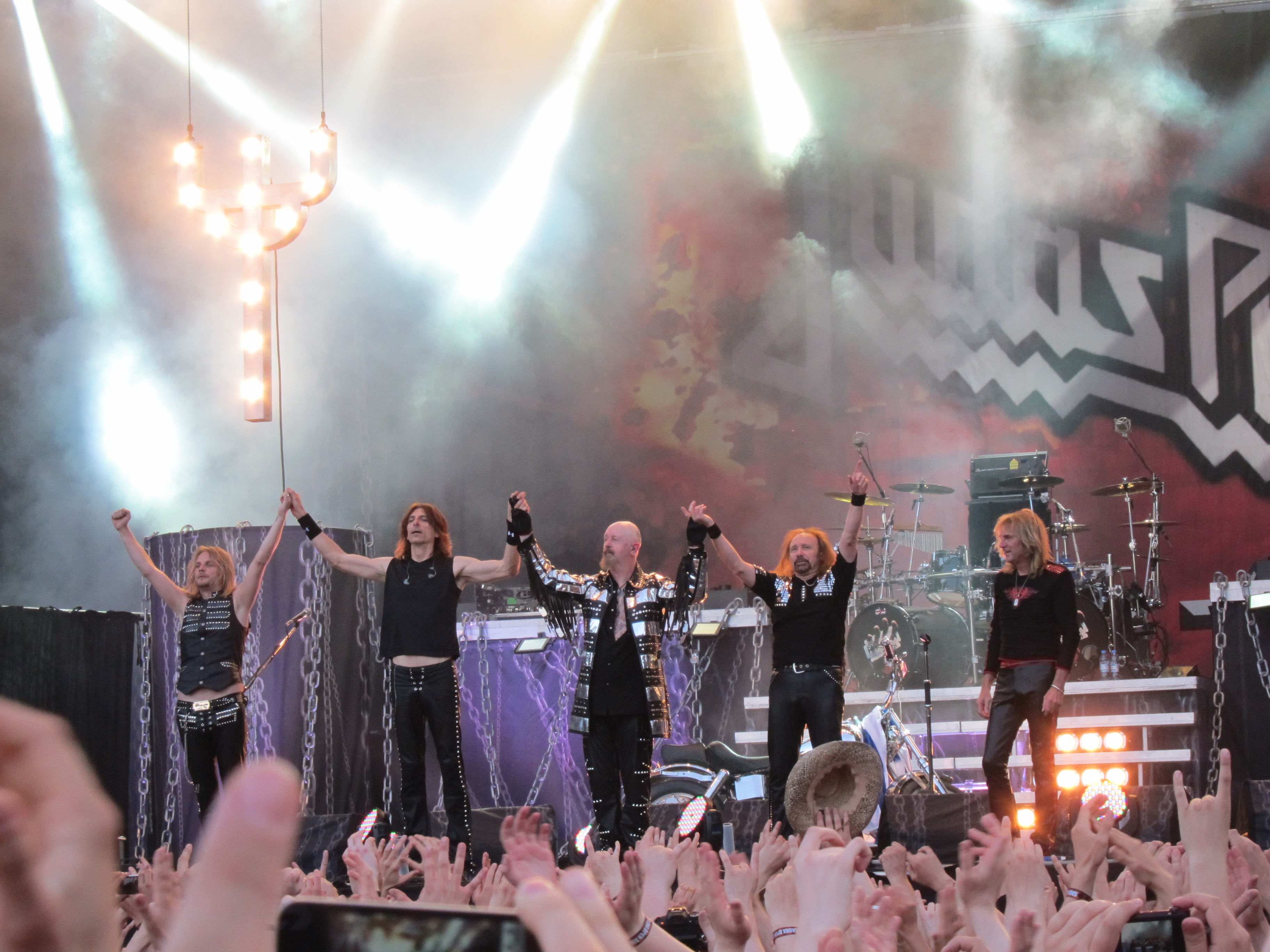 Judas Priest performing at the Sauna Open Air Metal Festival in Tampere, Finland.